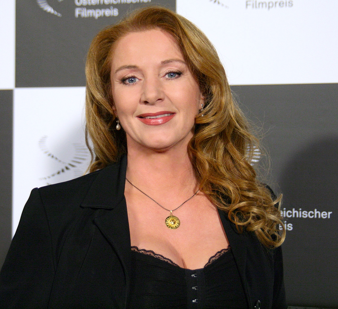 Gabriela Benesch, Austrian Film Awards 2012 (Vienna).